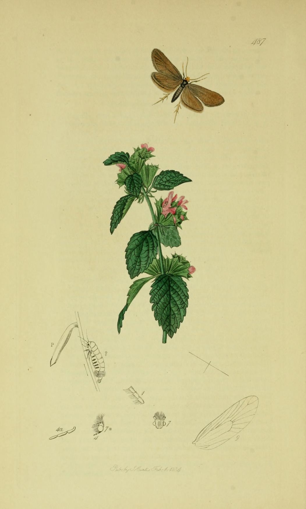 An illustration from British Entomology by John Curtis. Lepidoptera: Cochleophasia tessellea or Taleporia tessellea (Large Birch Bright).